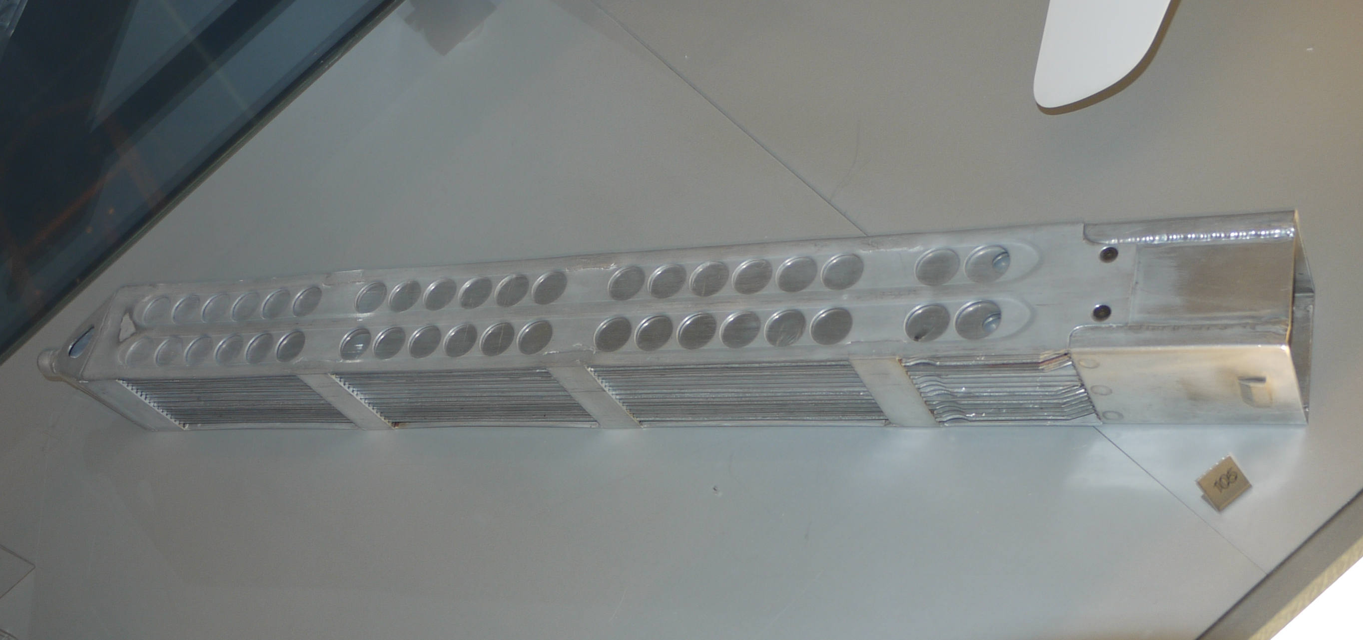 Photo of a replica of a fuel rod as used by the JASON reactor